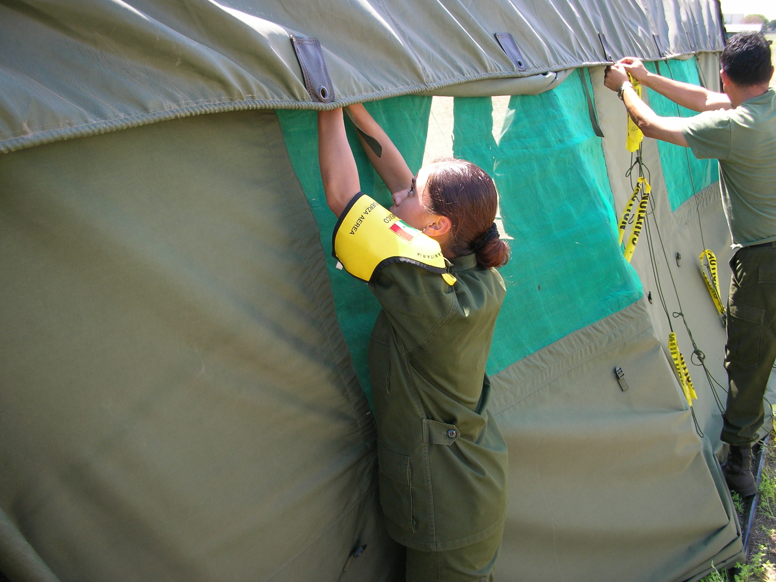 20050926174133 - Mexican soldiers breaking down tent in Texas